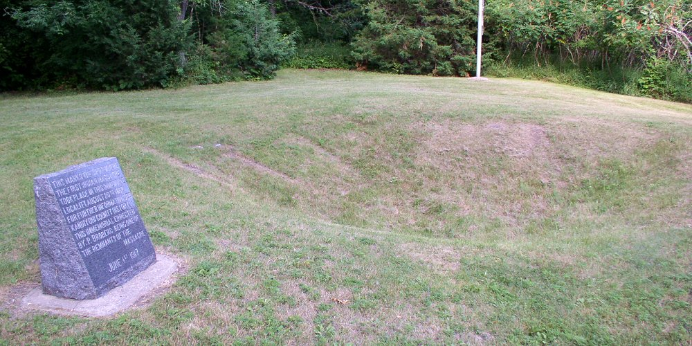 1861 Broberg Cabin cellar hole and 1917 memorial to victims of the Dakota War of 1862, Monson Lake State Park, Minnesota, USA.